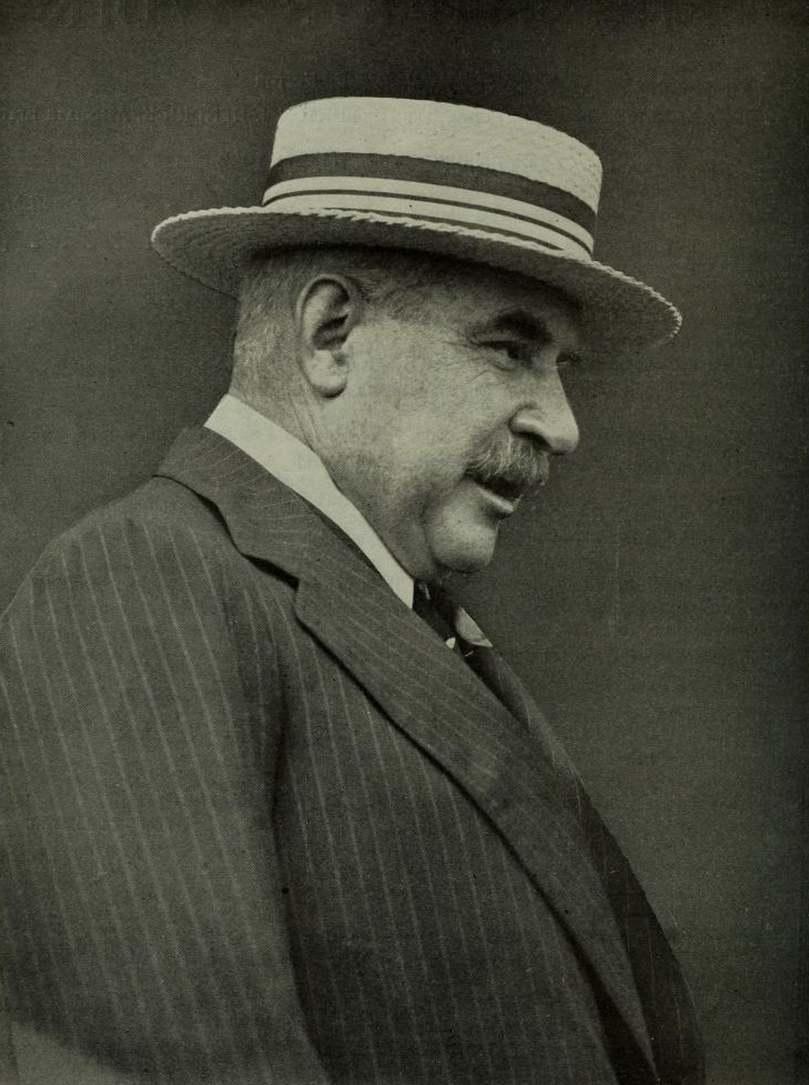 Portrait of J. P. Morgan